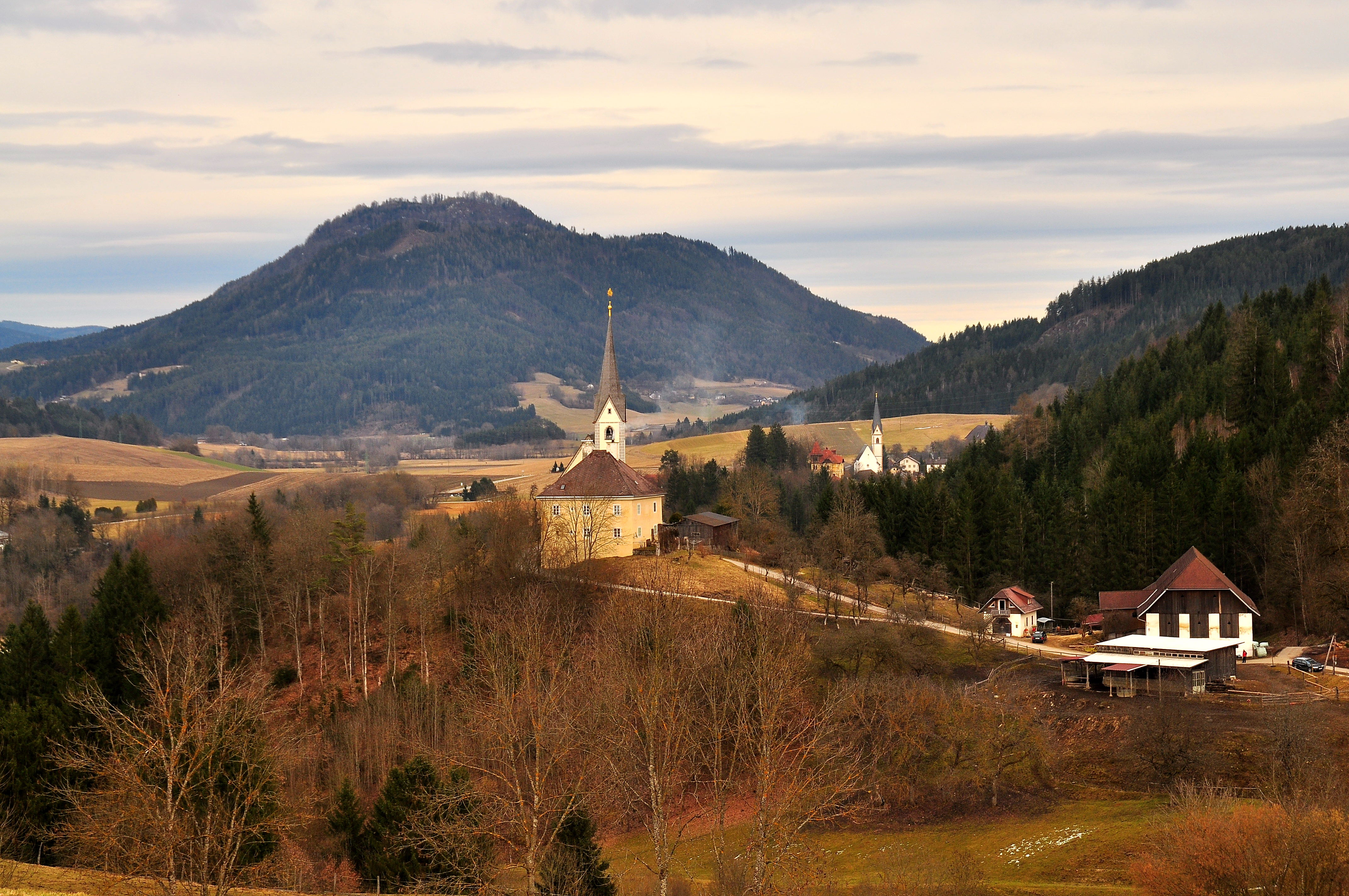 Parish church Saint Gandolf and subsidiary church Saint Mary in Maria Feicht (with the Ulrichsberg in the background) in the community Glanegg, district Feldkirchen, Carinthia, Austria, EU